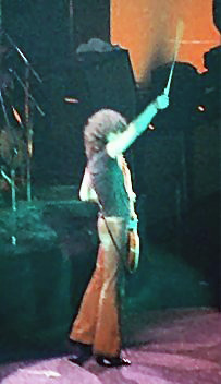 This is a cropped and cleaned up version of the original